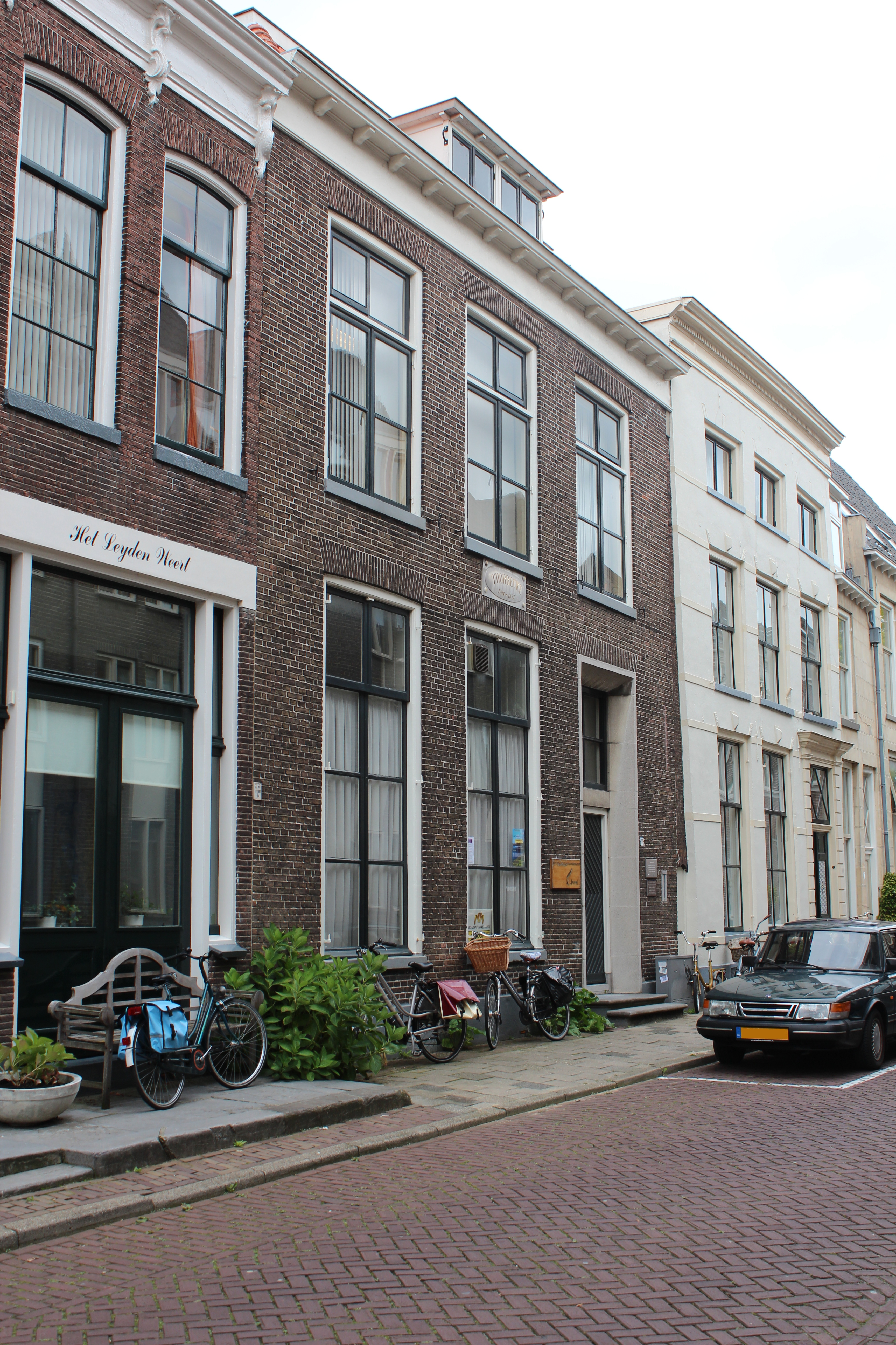 Birthplace of the dutch politician Thorbecke, the faqther of the dutch constitution